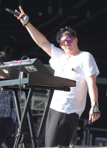 Cropped image of File:SamSparro2009.jpg.